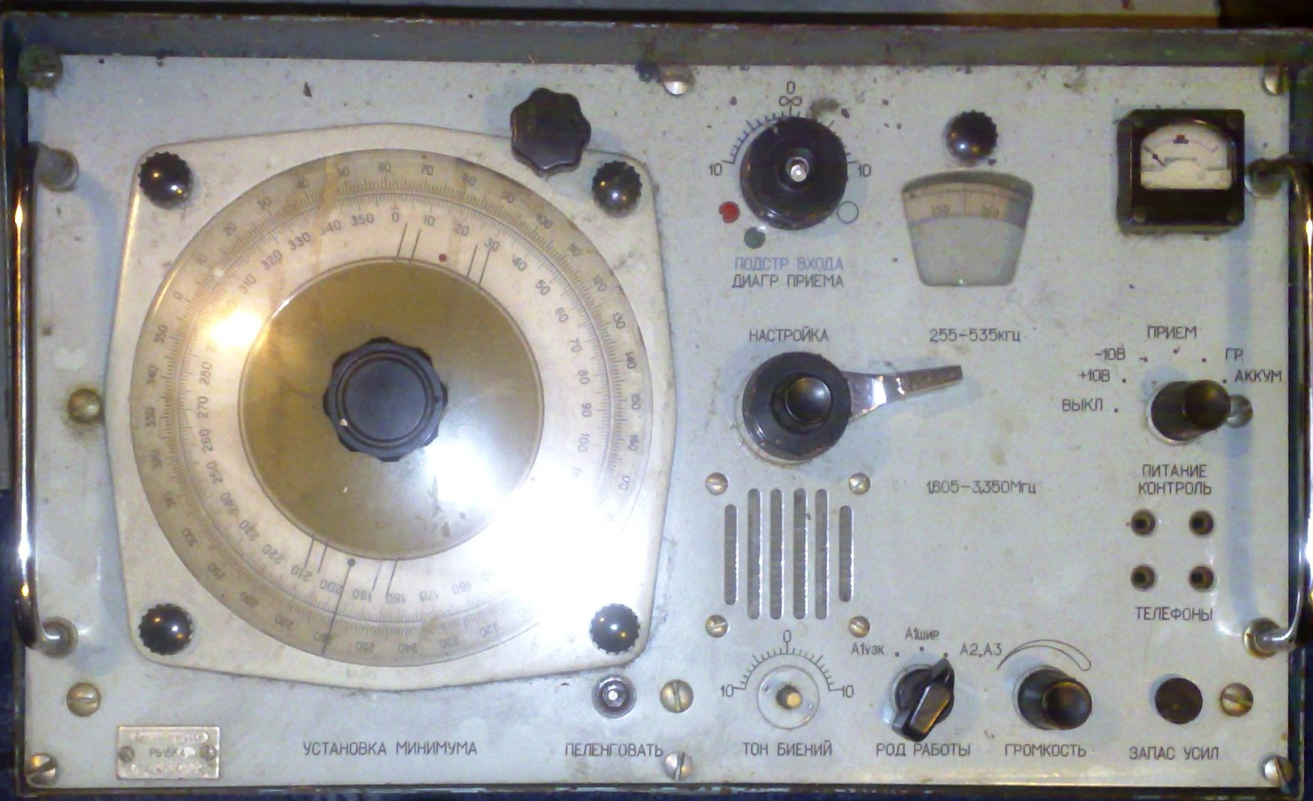 russian-made Bellini-Real receiver